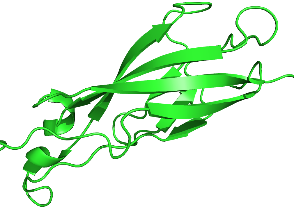 Cartoon representation of a repeating unit in the extracellular E-cadherin ectodomain of the mouse found in the PDB 3Q2V, rendered using Pymol (DeLano Scientific)